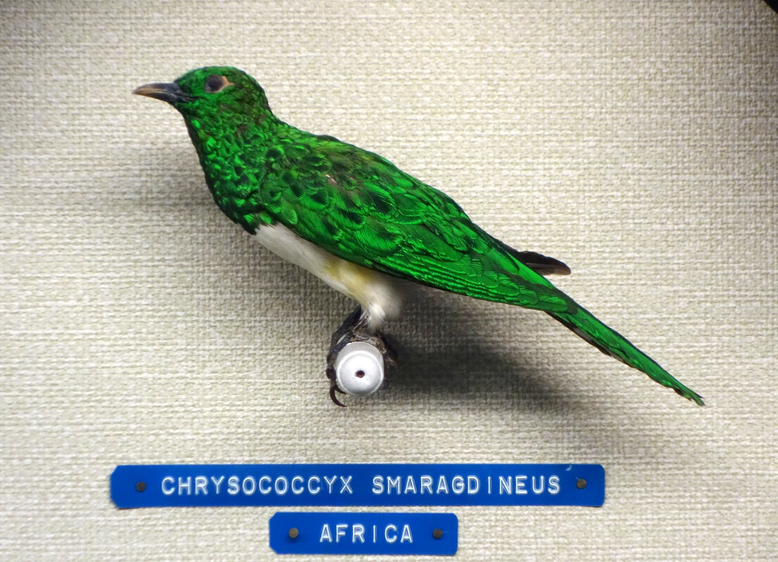 Exhibit in the Museo Civico di Storia Naturale di Genova, Via Brigata Liguria, 9, 16121, Genoa, Italy.